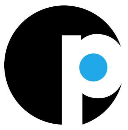 The logo for Participant Media